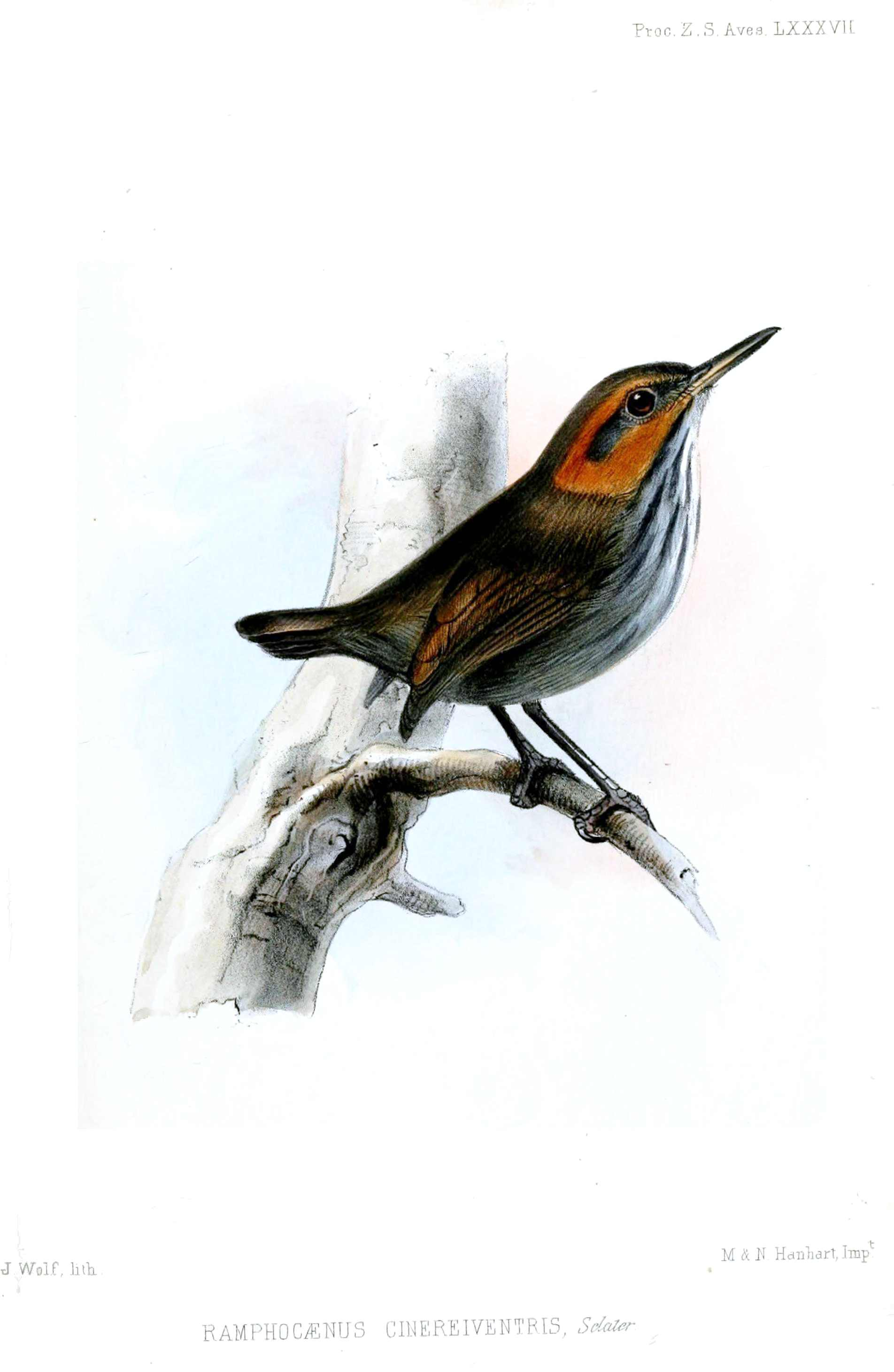 Ramphocaenus cinereiventris=Microbates cinereiventris